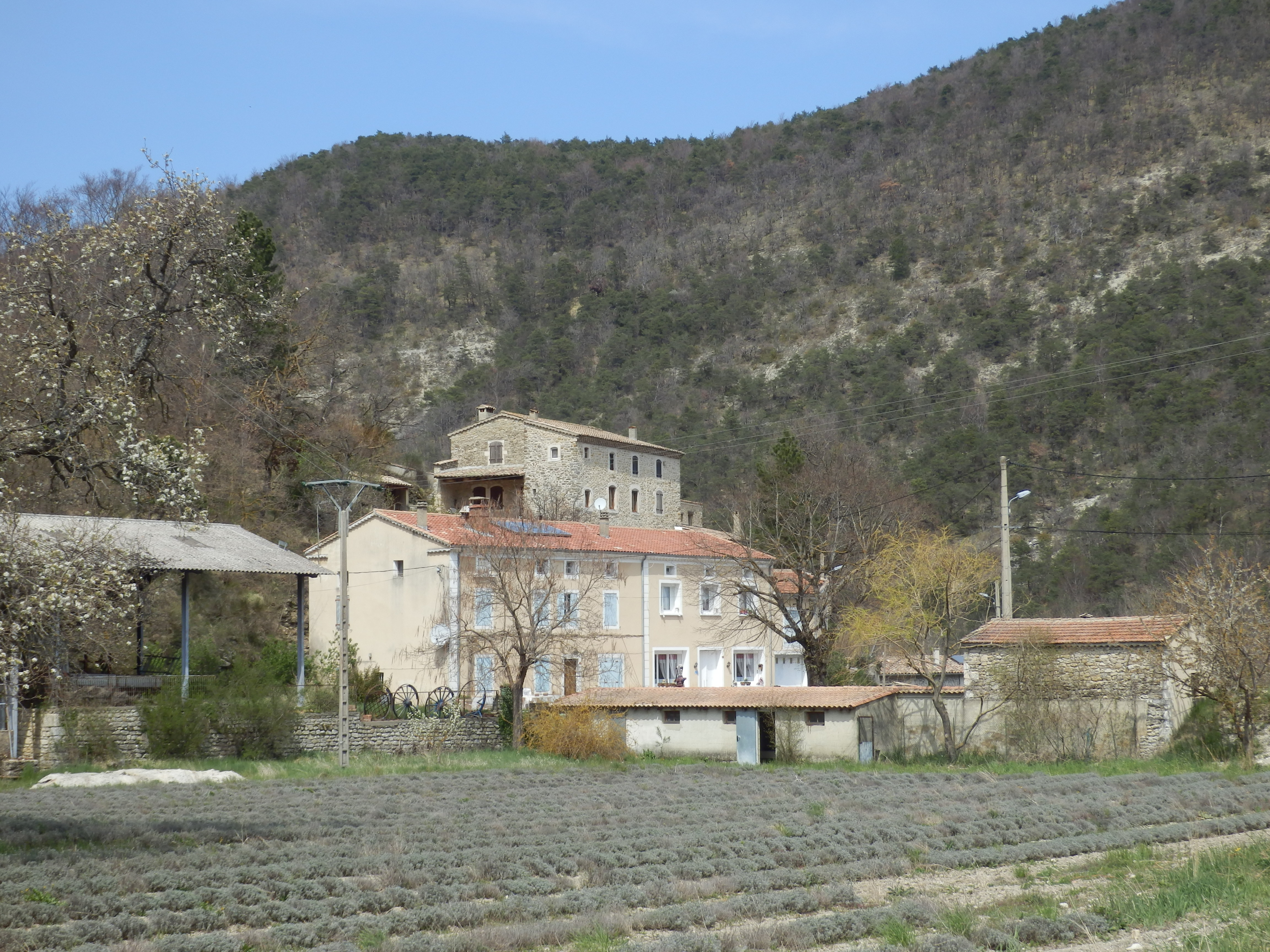 Le Moulin, Teyssières, Drôme, France